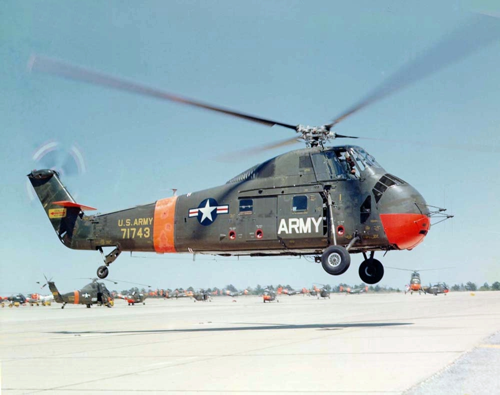 A U.S. Army Sikorsky CH-34C Choctaw (s/n 57-1743) in flight.